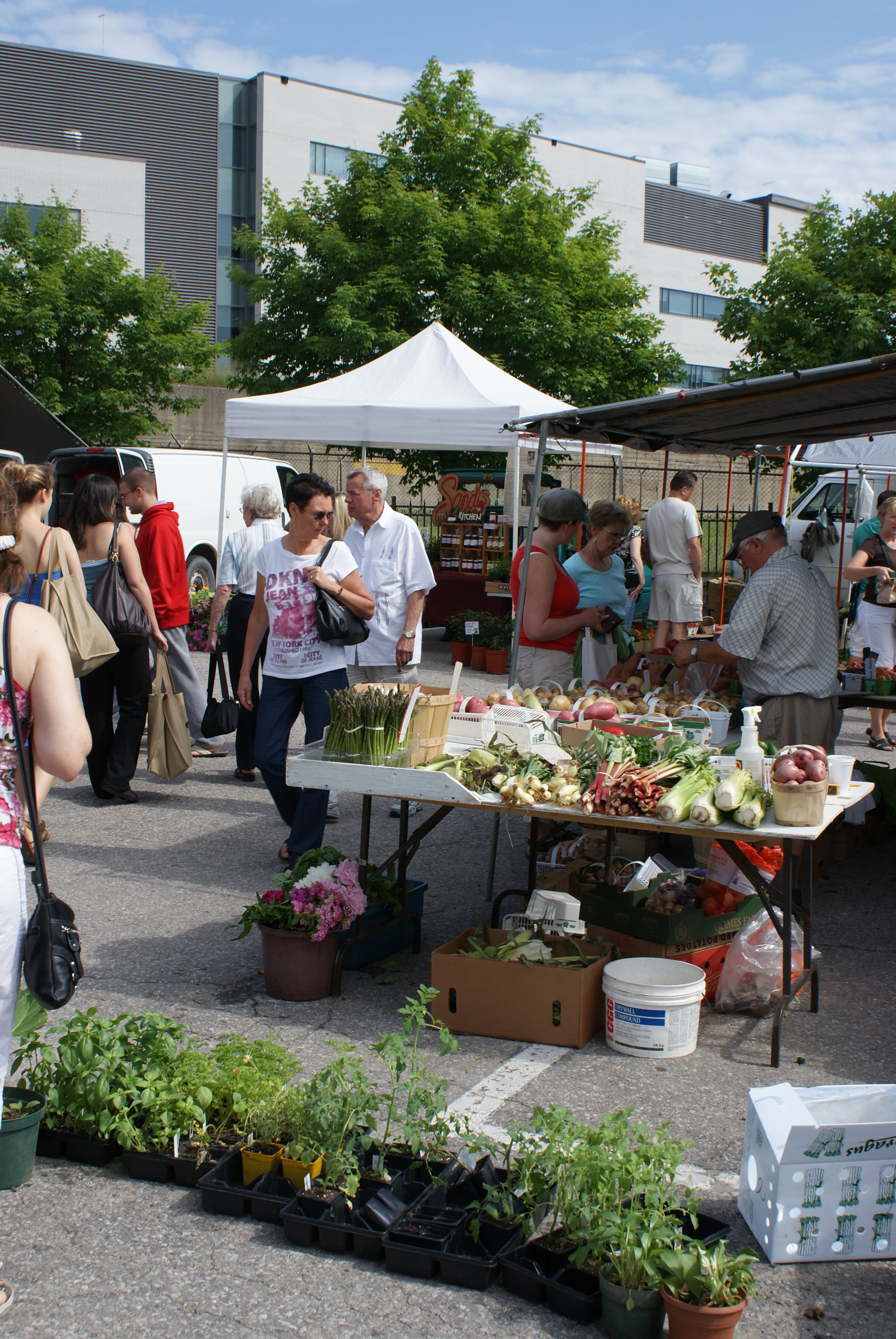 The outer part of Guelph Farmers' Market.